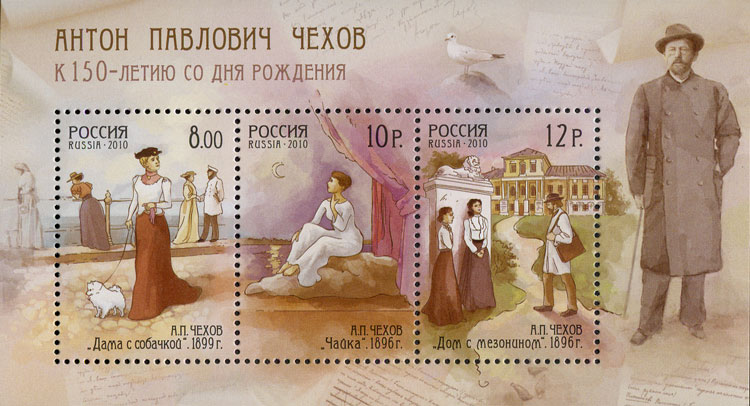 Stamp of the Russia, Anton Chekhov, 2010.